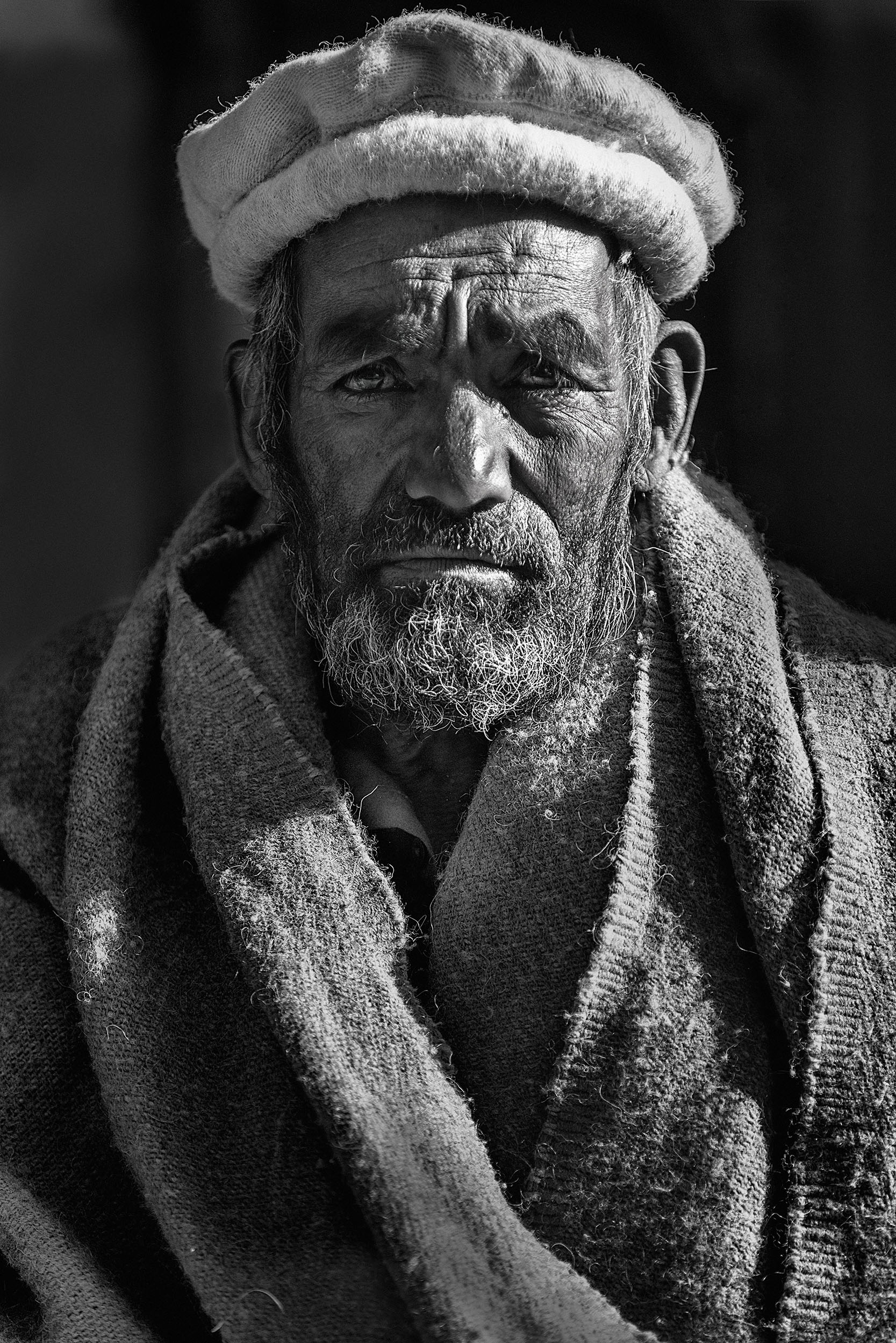 The wrinkles don't depict that i am dying, they prove i have lived it Khaplu, Gilgit Baltistan